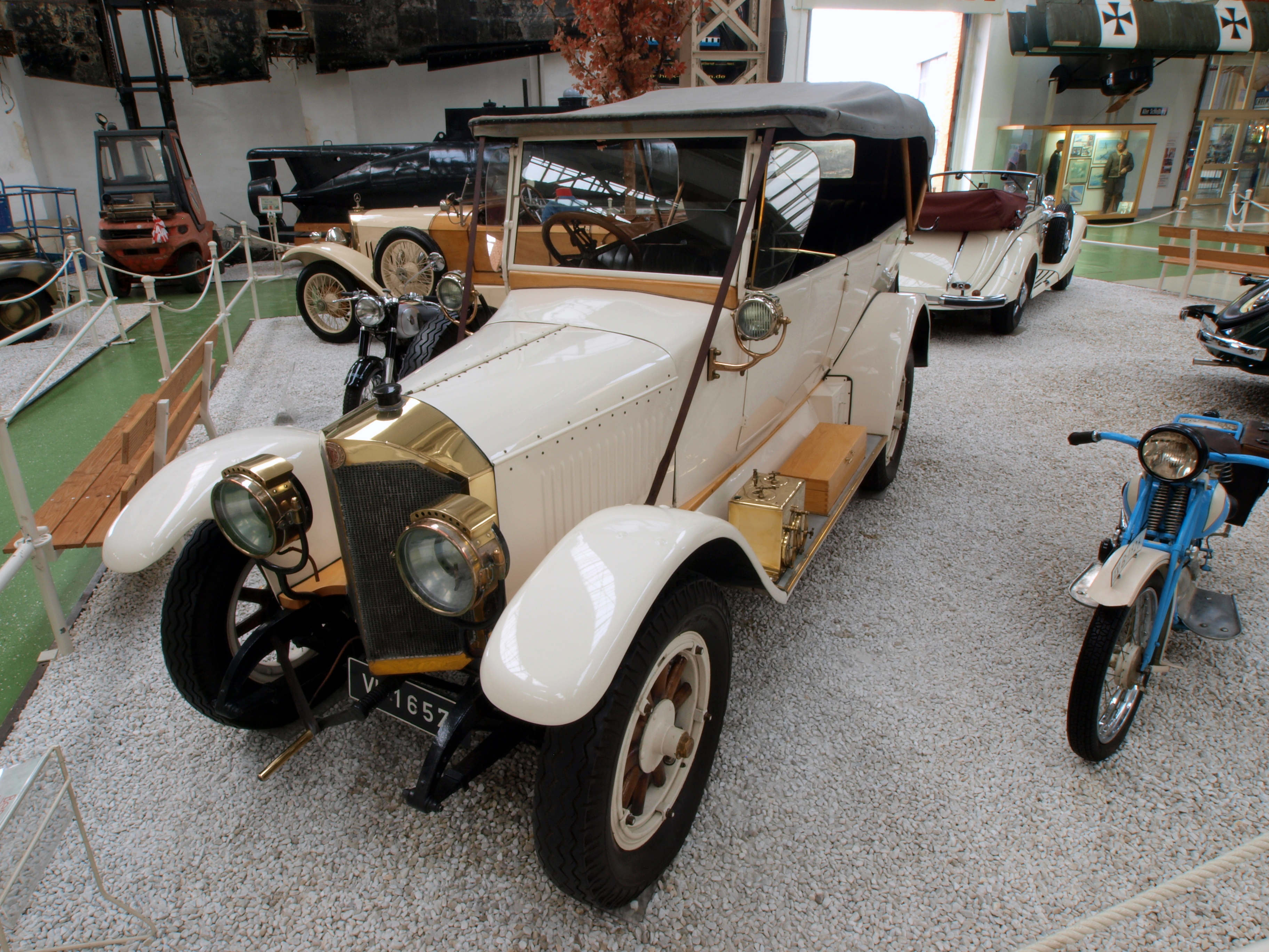 Benz 14-30 PS 1915. Photographed at the Technik Museum Speyer, Germany.